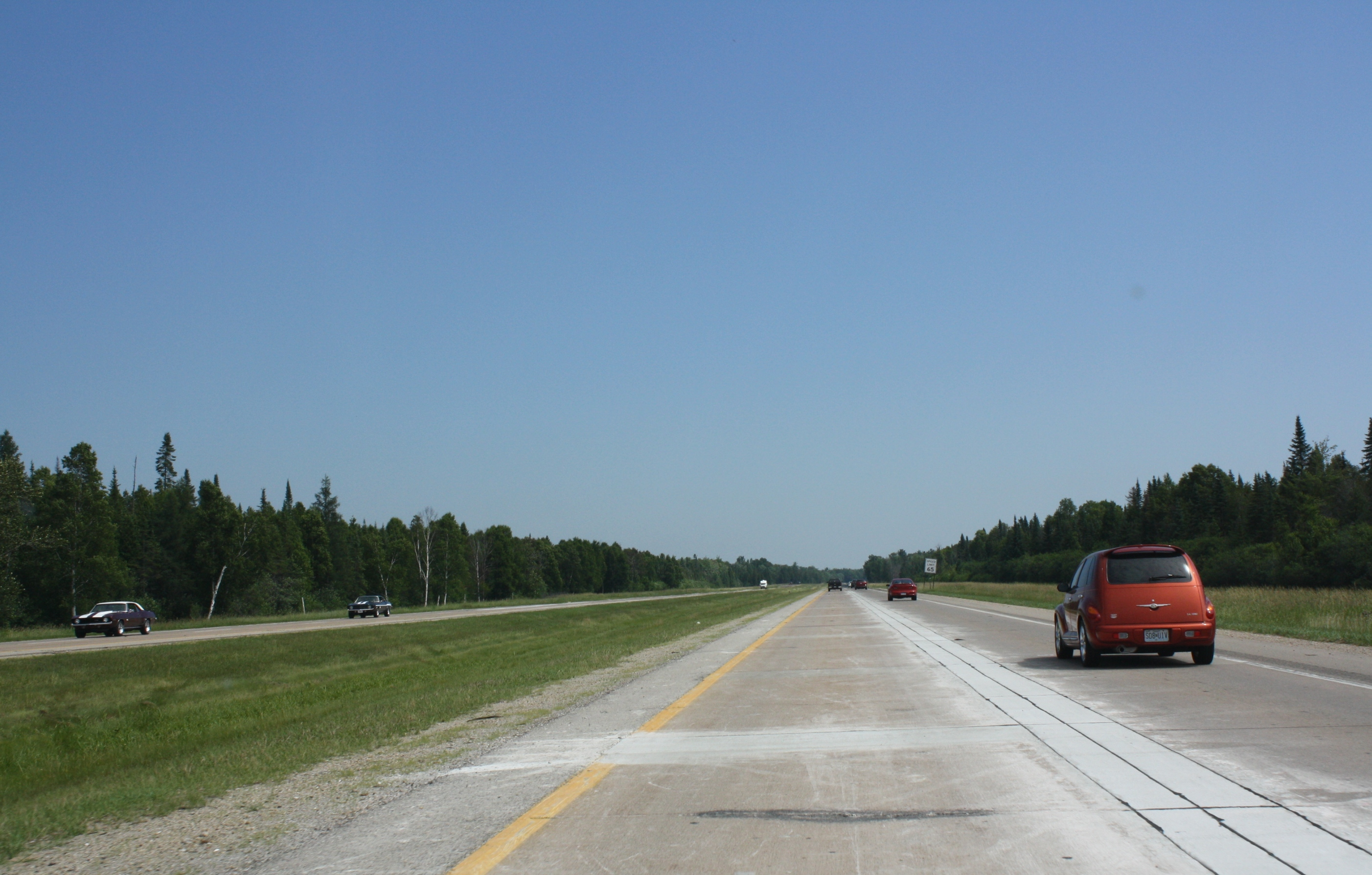 Eastbound on the US Highway 2 / US Highway 41 expressway northeast of Gladstone, Michigan.